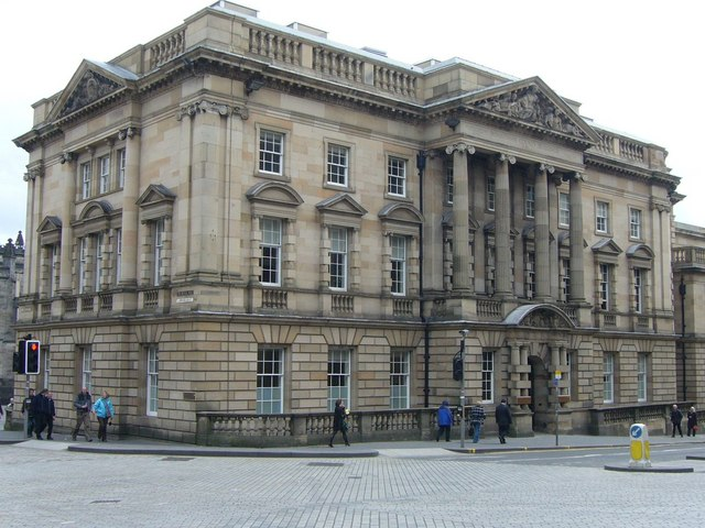 Edinburgh Council building The old Midlothian County Council building from the days before regional reorganisation in the 1970s caused Edinburgh and Midlothian to part company. Midlothian built new Council offices on the opposite side of the street that were recently demolished. Lothian Region now uses the original Council building to house its registry of births, deaths and marriages (or as Edinburgh folk are wont to call it, "hatches, matches and despatches").